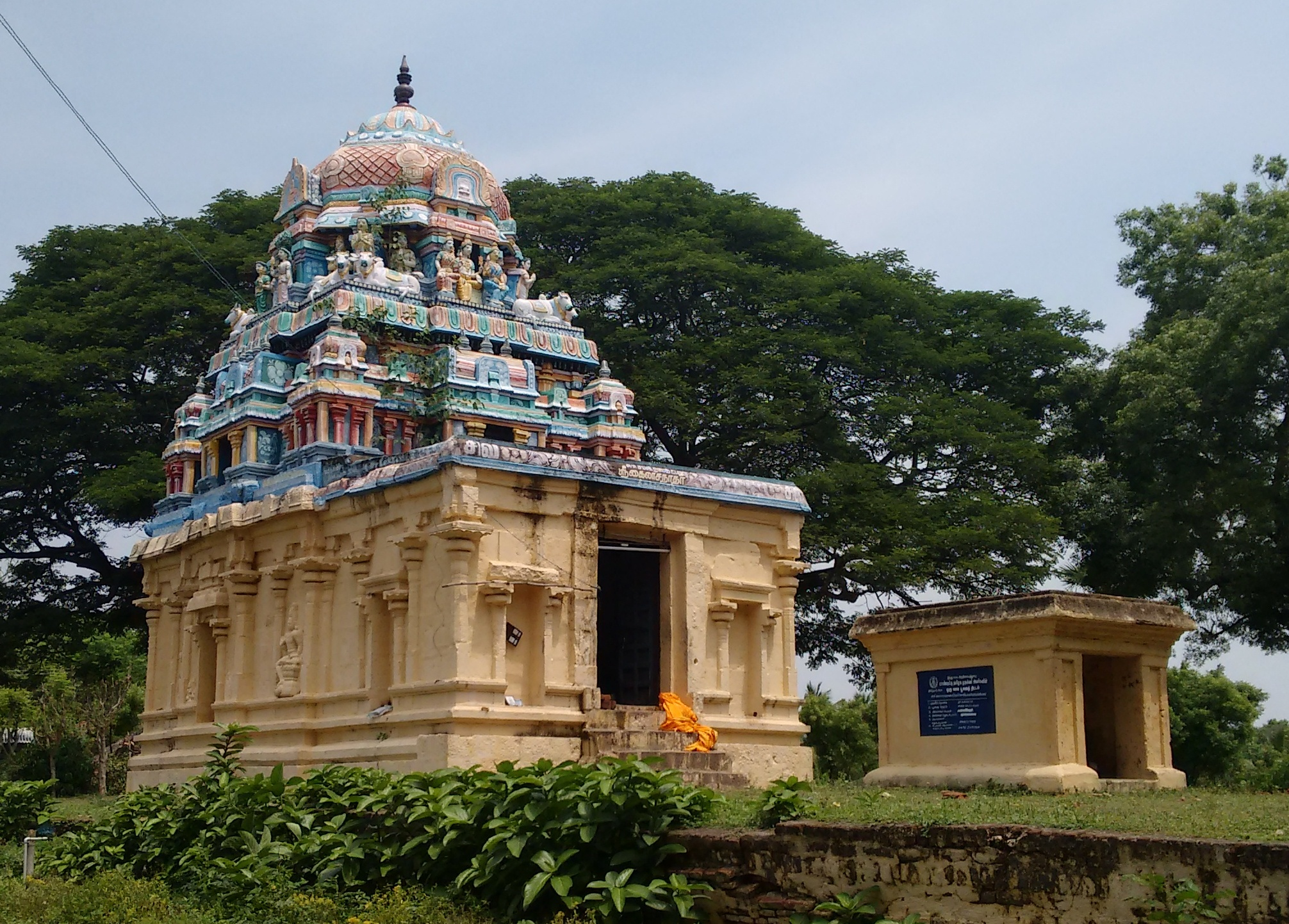 Tirumetraligai kailasanathatemple திருமேற்றளிகை கைலாசநாதர் கோயில்